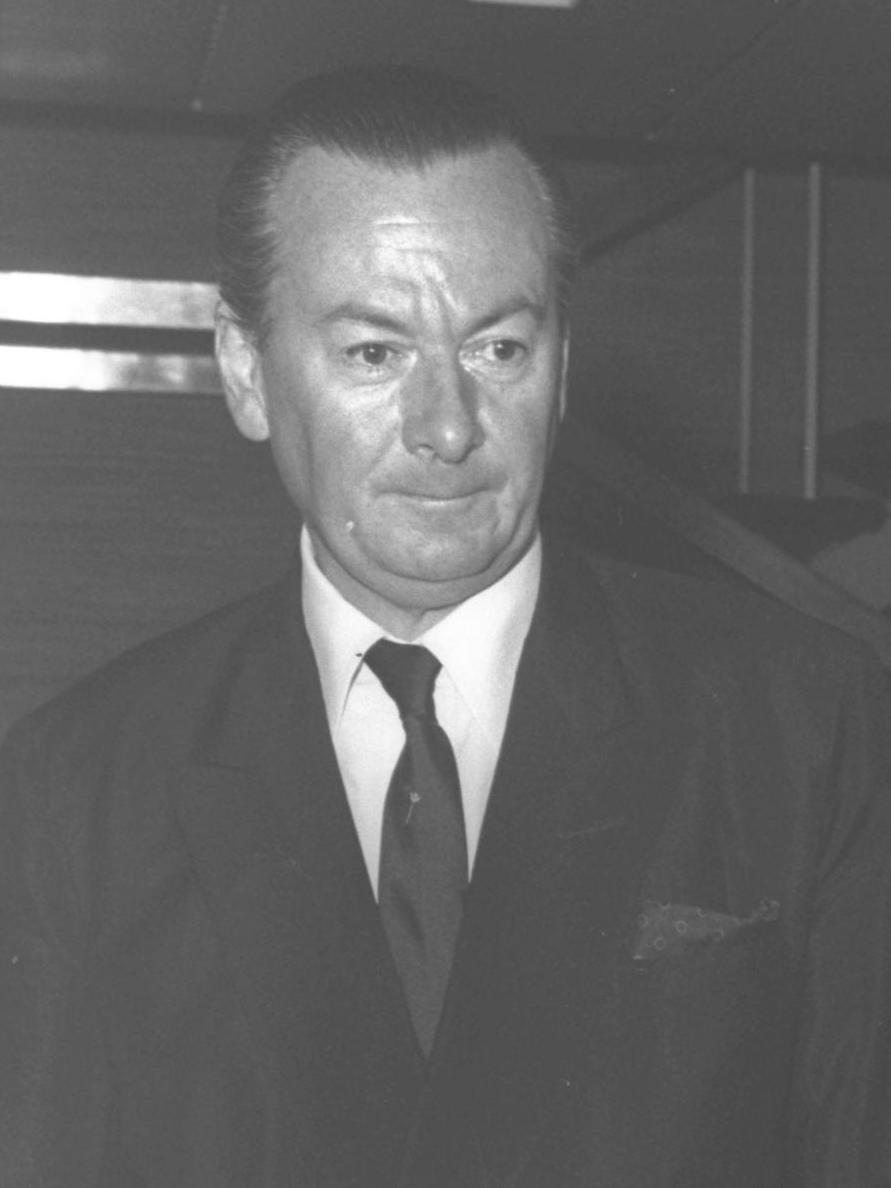 JULIAN AMERY, MEMBER OF BRITISH PARLIAMENT AND FORMER MIN. OF AVIATION (L), WITH MR. UNA OF ISRAEL FOREIGN MIN. ARRIVING FOR PRESS CONFERENCE AT DAN HOTEL, TEL AVIV.